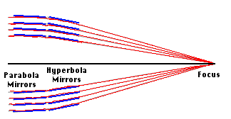 Mathematically it has been shown that a reflection off a parabolic mirror followed by a reflection off a hyperbolic mirror can lead to the focusing of X-rays.